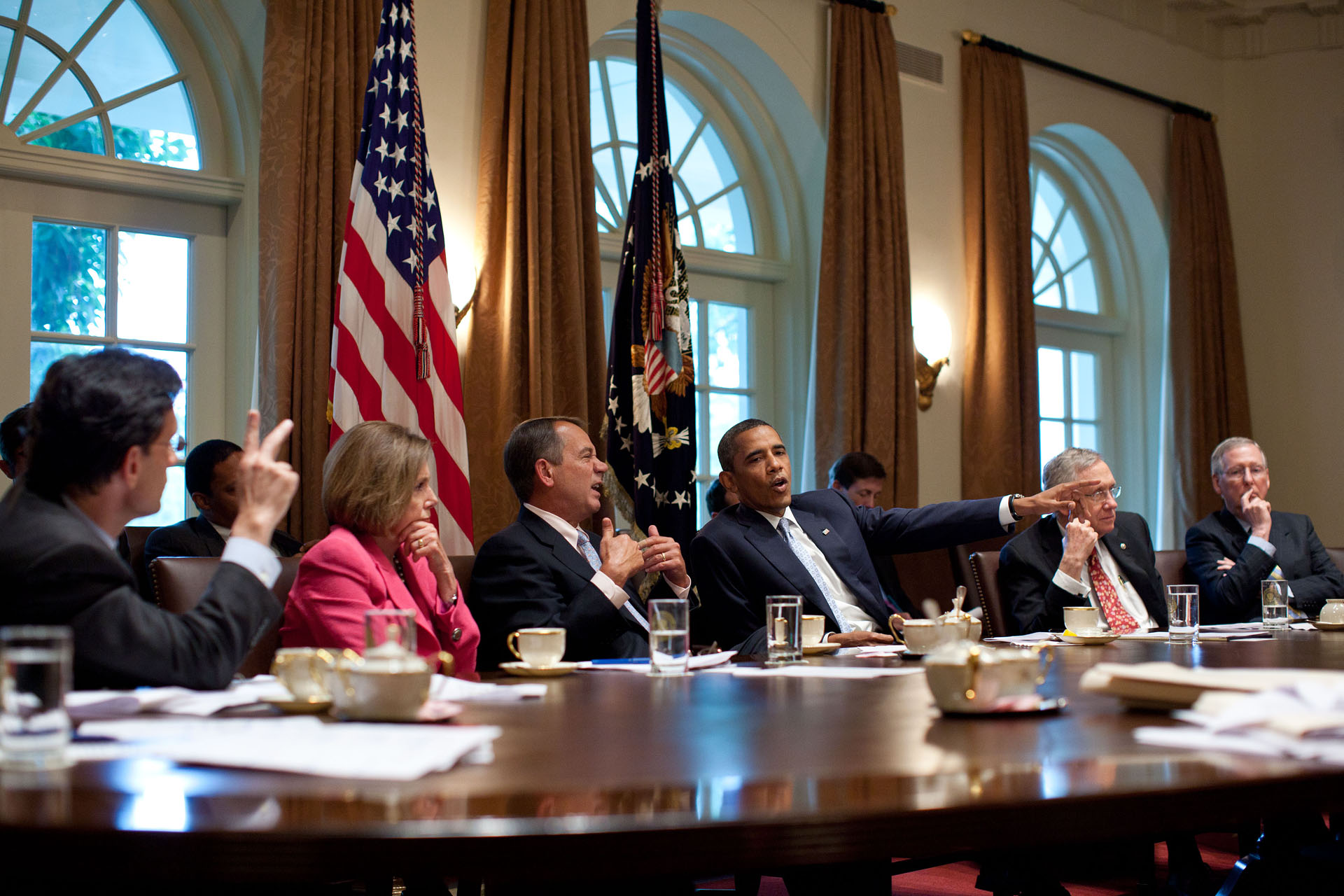 President Barack Obama meets with Congressional Leadership in the Cabinet Room of the White House to discuss ongoing efforts to find a balanced approach to the debt limit and deficit reduction, July 13, 2011. Pictured, from left, are: House Majority Leader Eric Cantor, House Minority Leader Nancy Pelosi, House Speaker John Boehner, Senate Majority Leader Harry Reid, and Senate Minority Leader Mitch McConnell.